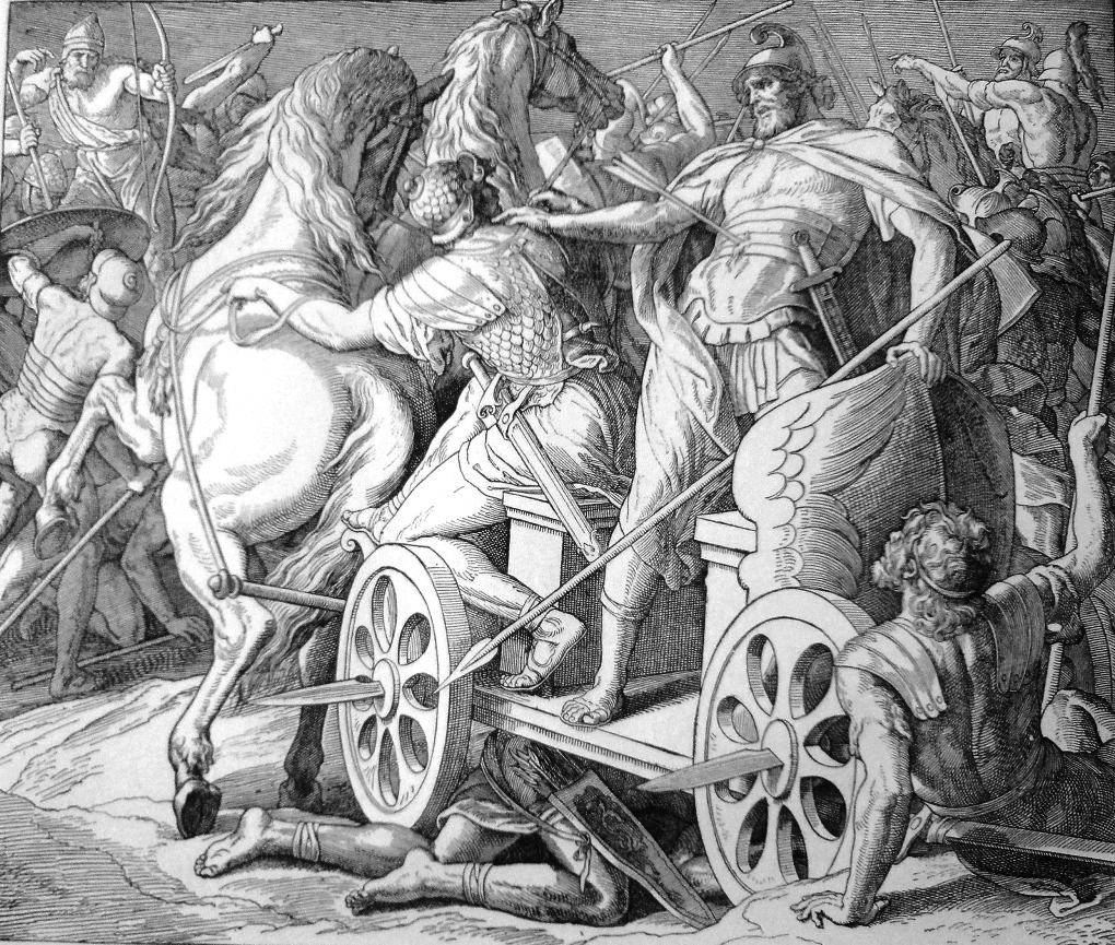 The death of king Achab (Julius Schnorr von Carolsfeld)